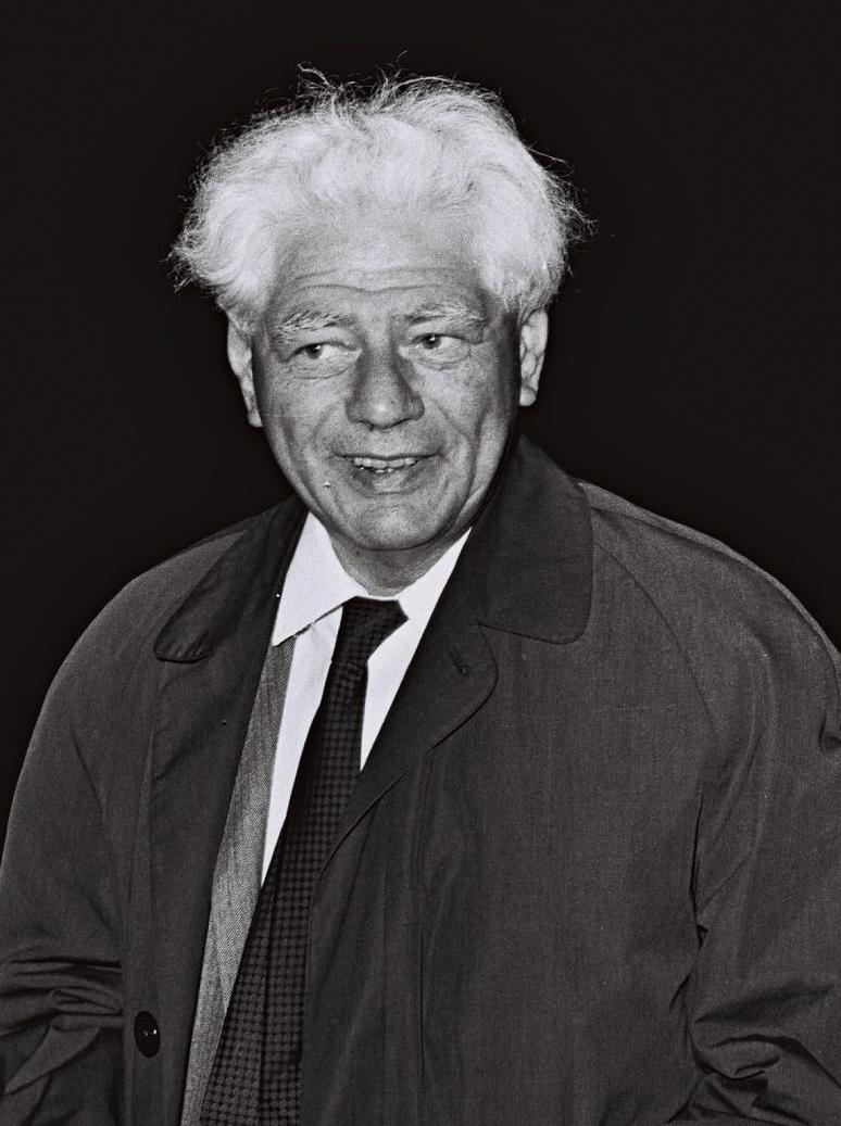 SPEAKER OF DANISH PARLIAMENT JULIUS BOMHOLT